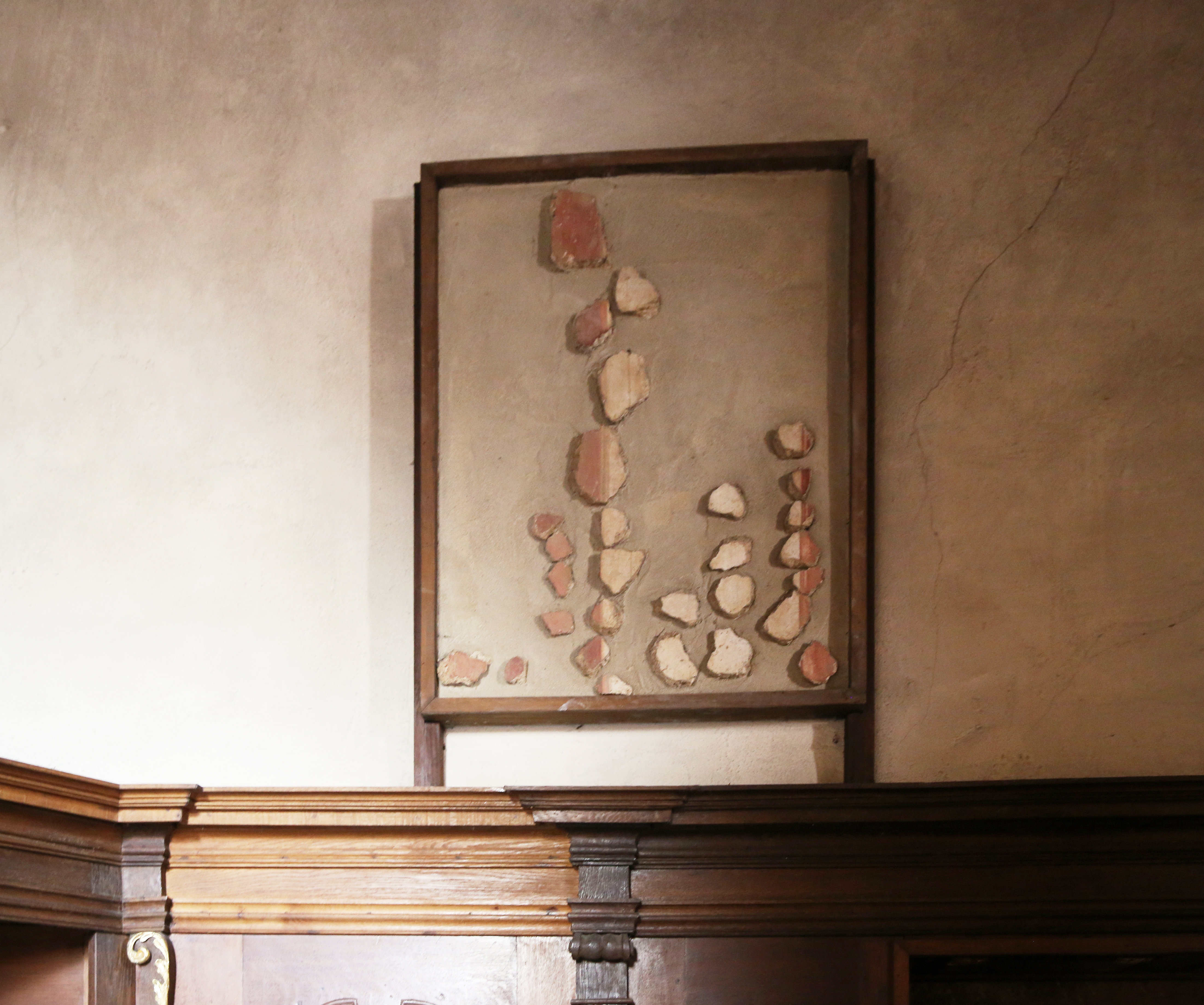 Former Catholic Parish Church St. Viktor, Hochkirchen (Nörvenich), Germany